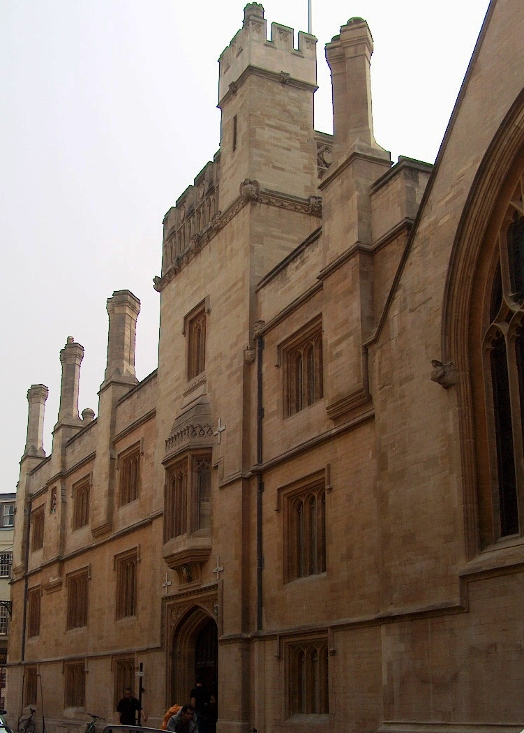 I took this last August. Use it if you like.